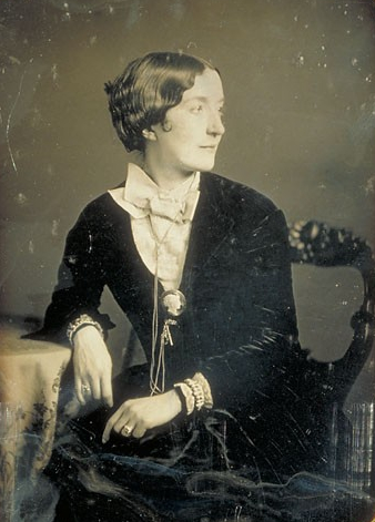 Daguerreotype of Jean Margaret Davenport. TC-24, Harvard Theatre Collection, Harvard University